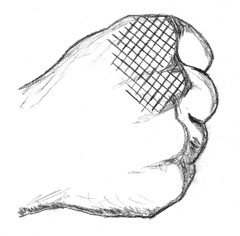 Karate: Uraken